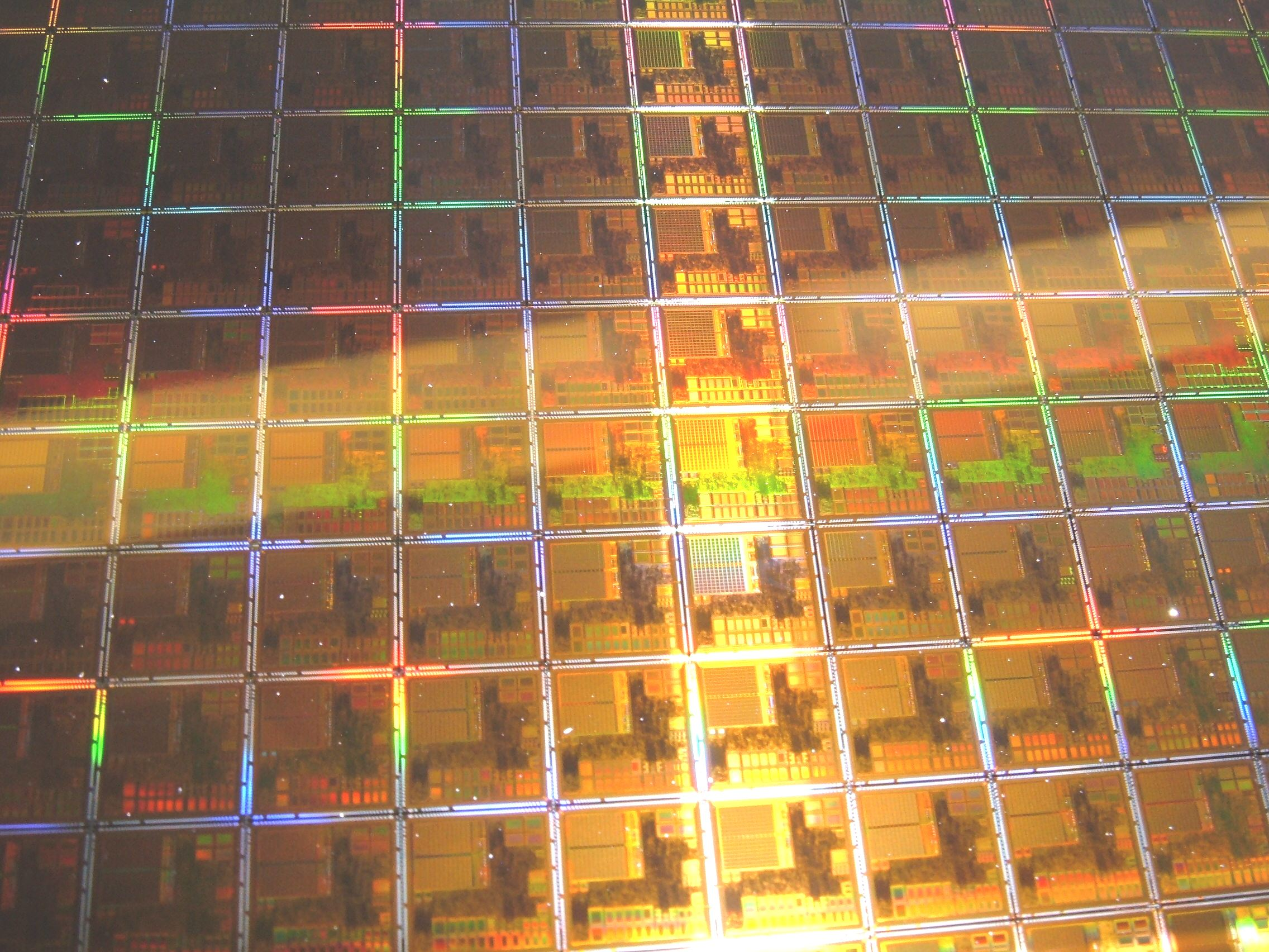 Surface of a Panasonic 8 inch wafer. The pale yellow bands are reflected light.